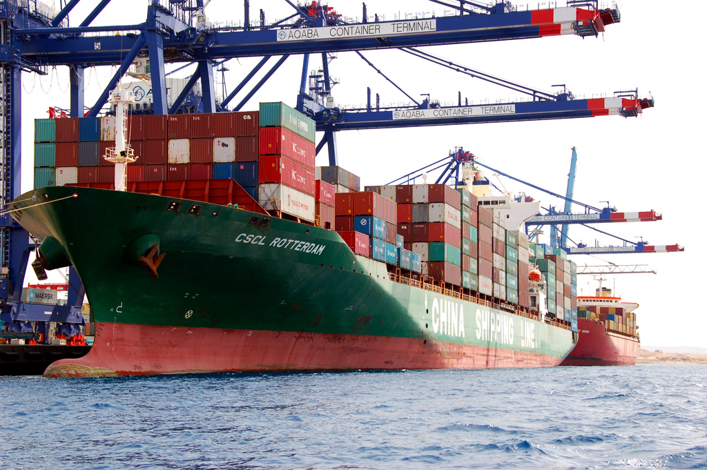 CSCL Rotterdam in the port of Aqaba, Jordan.